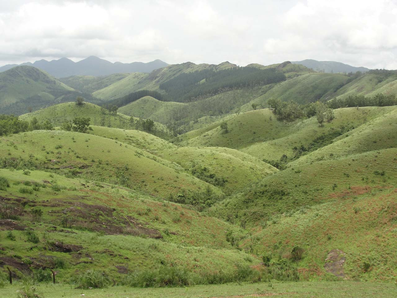 Vagamon Meadow